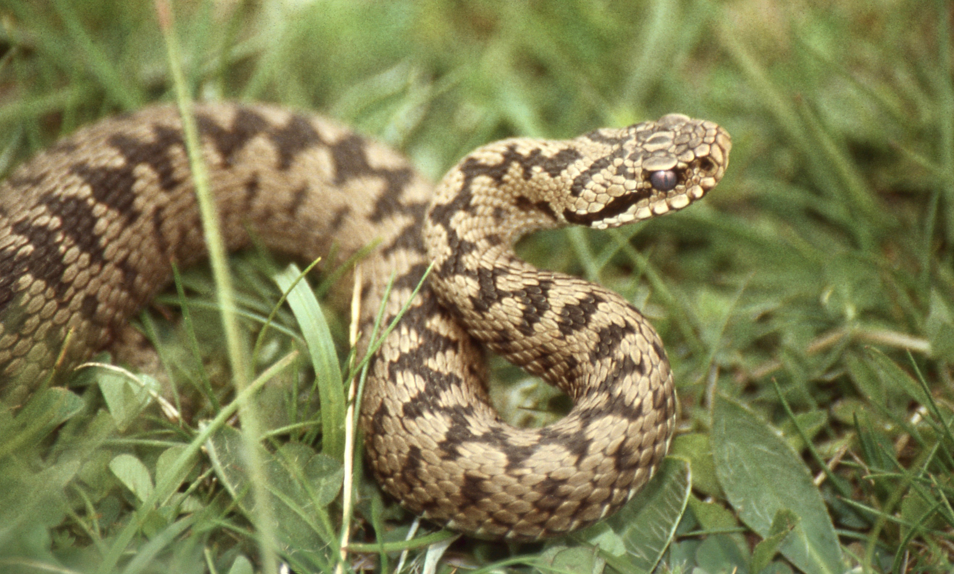 Cantal, Auvergne, FRANCE Scanned Slide from May 1999